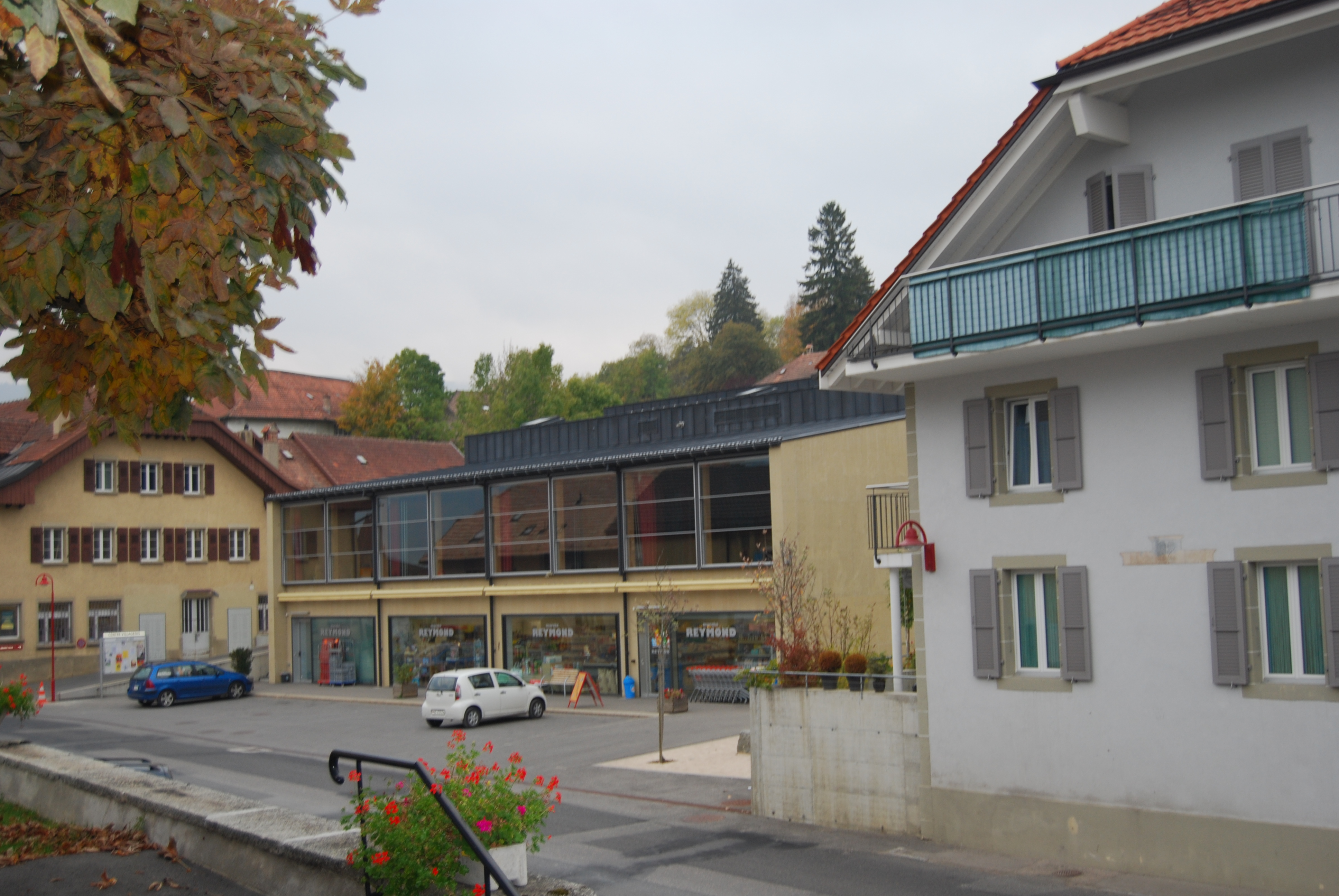 Ballaigues, canton of Vaud, Switzerland